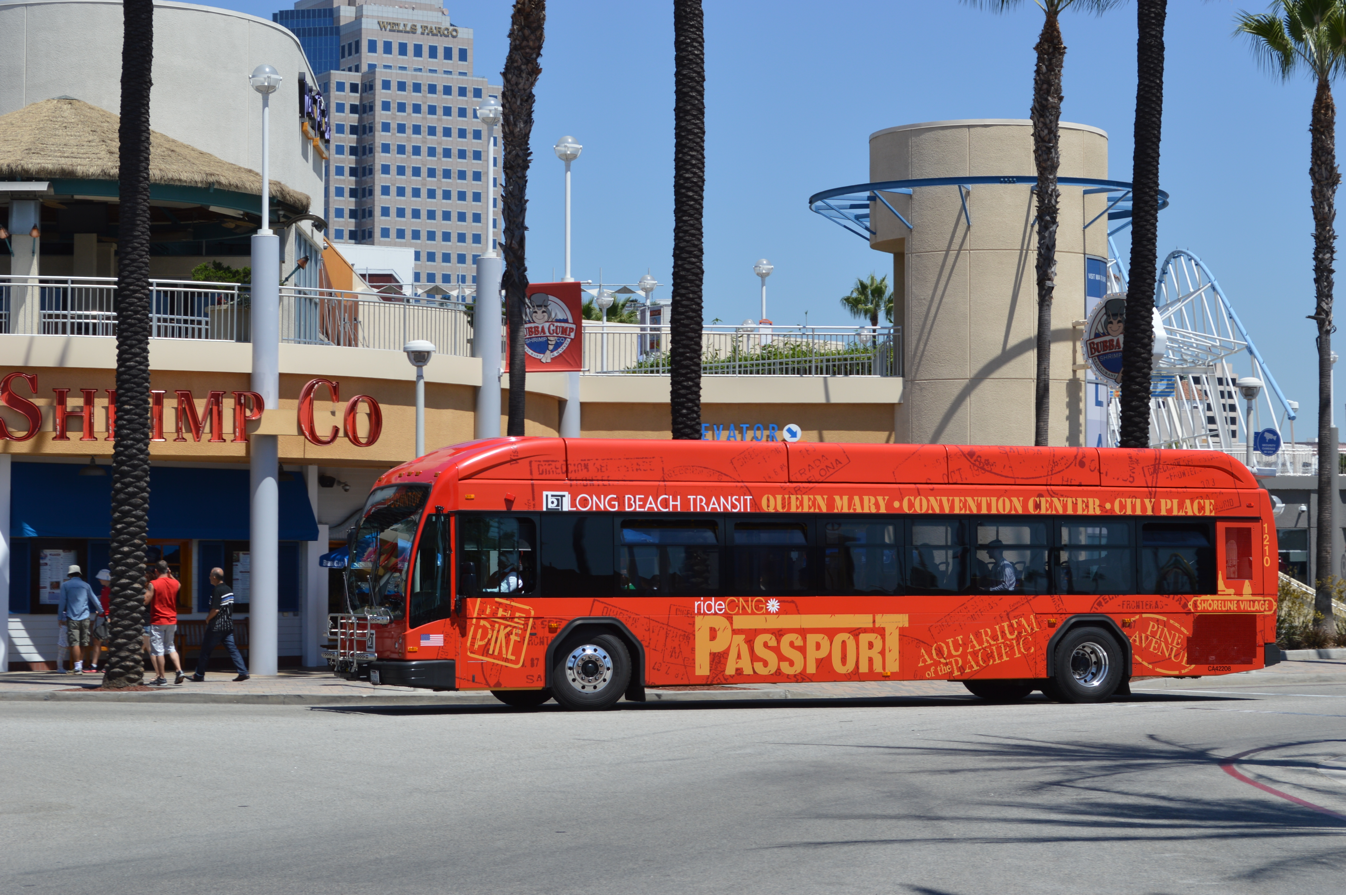 Long Beach's free bus connecting the Queen Mary, the Aquarium of the Pacific, the City Place Mall, The Pike, the Convention Center, etc.